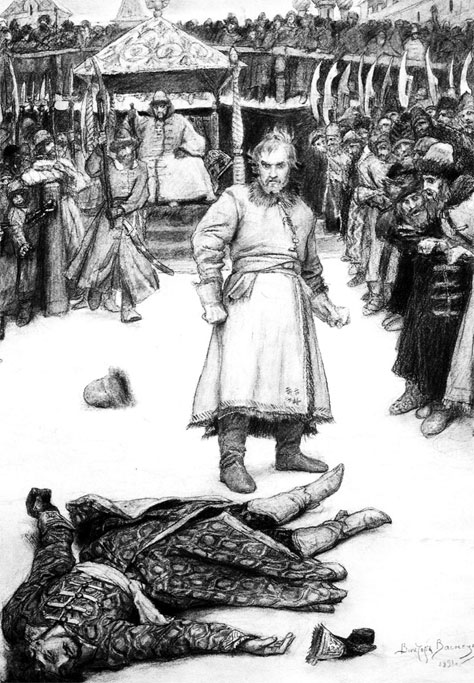 reproduction of Victor Vasnetsov's illustation